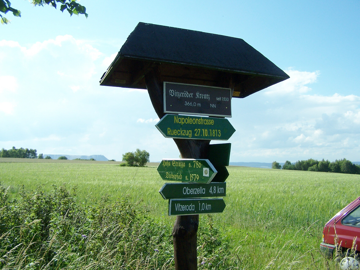 At the Hohe Straße - the old high way from Leipzig to Frankfurt/Main, later called Napoleon-Street to.